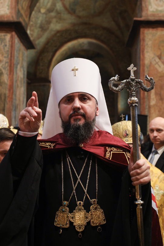 This is a cropped version of the following file: Participation in the liturgy and enthronement of the Primate of the Orthodox Church of Ukraine (2019-02-03) 47.jpeg.